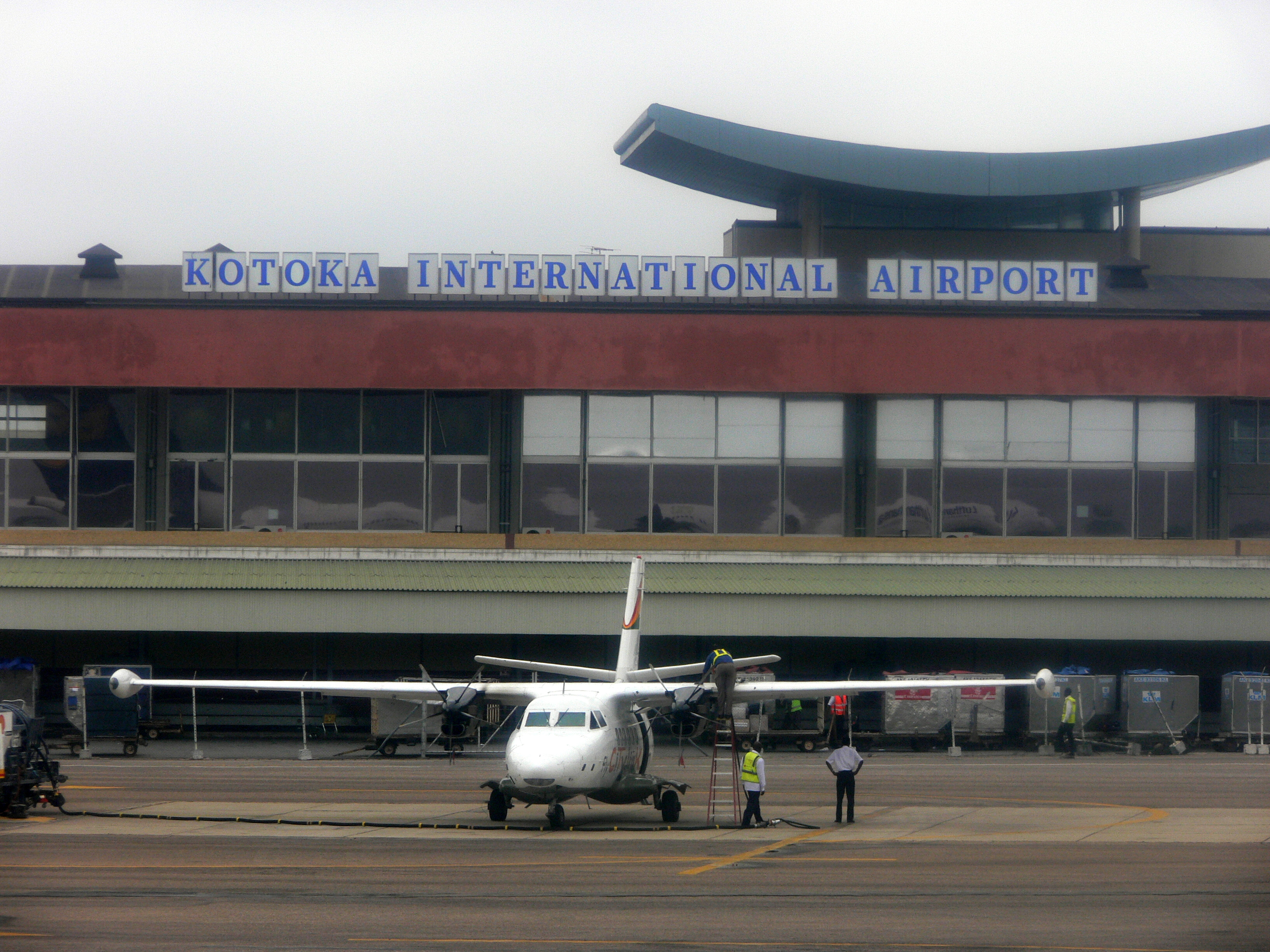 Apron of Kotoka International Airport in Accra, Ghana (IATA: ACC)